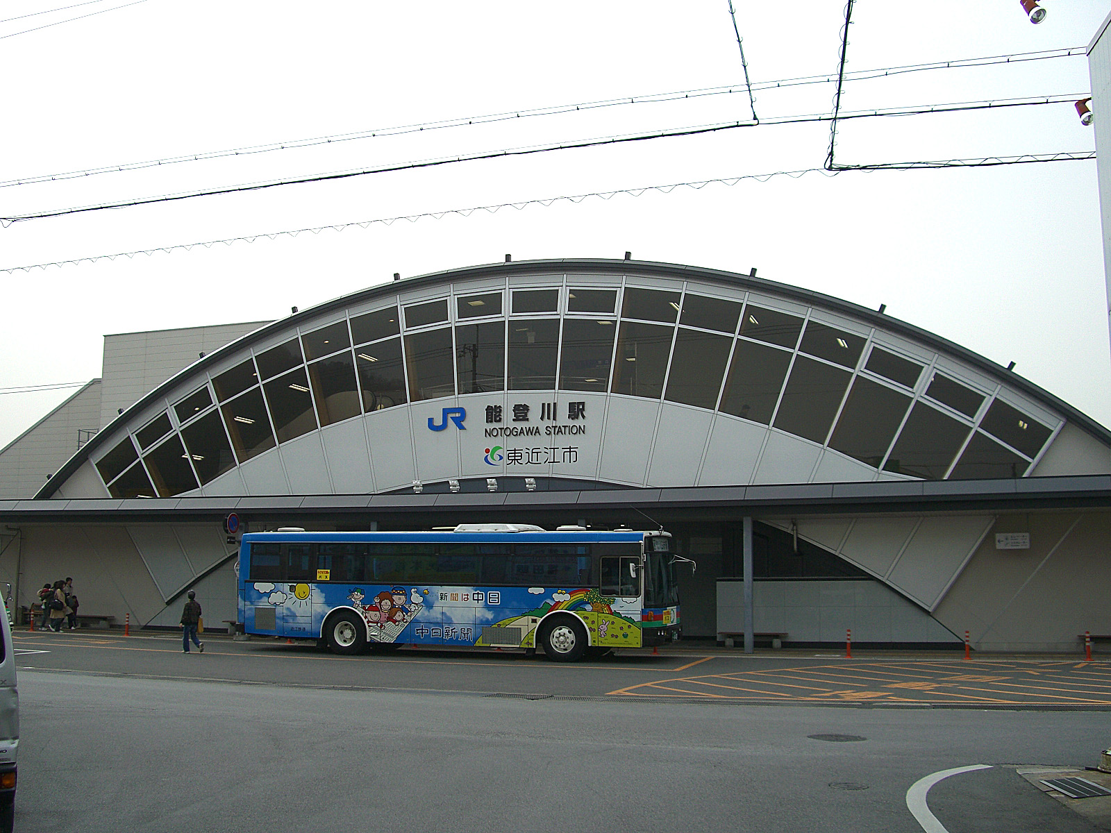 West Japan Railway Tōkaidō Main Line（Biwako Line） Notogawa Station Building（East Gate） 西日本旅客鉄道 東海道本線（琵琶湖線） 能登川駅 駅建物（東出口）